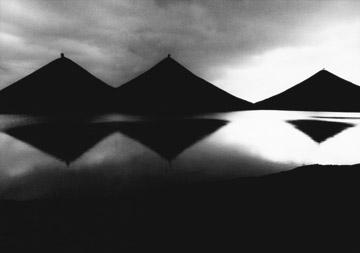 Michał Cała, Czerwionka 1978, from "Śląsk" series.